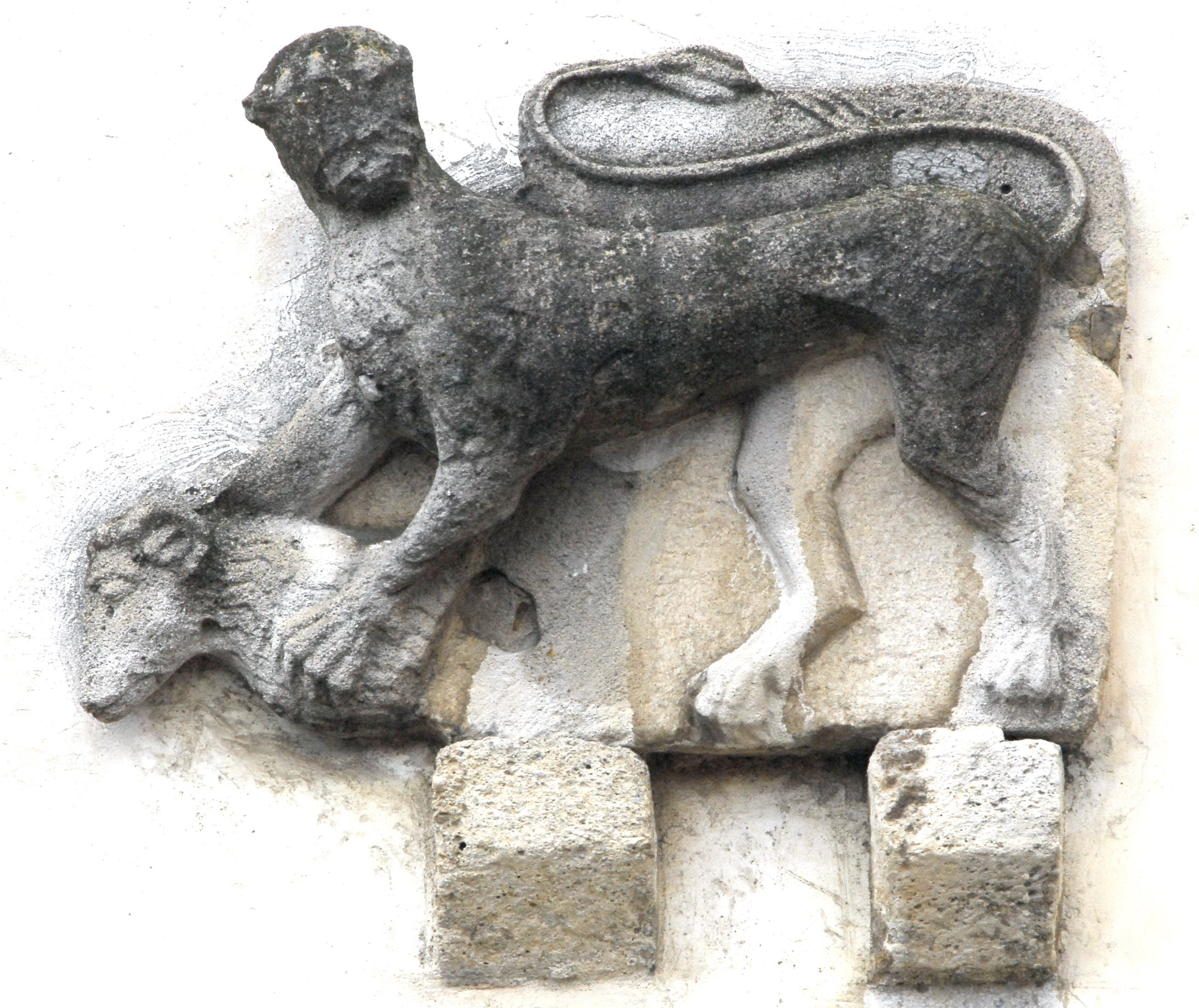 Stone relief of a manticore with slain aries on the exterior atrium south wall of the parish church «Our Lady of Mercy» in Maria Gail, municipality Villach,, Carinthia, Austria, EU